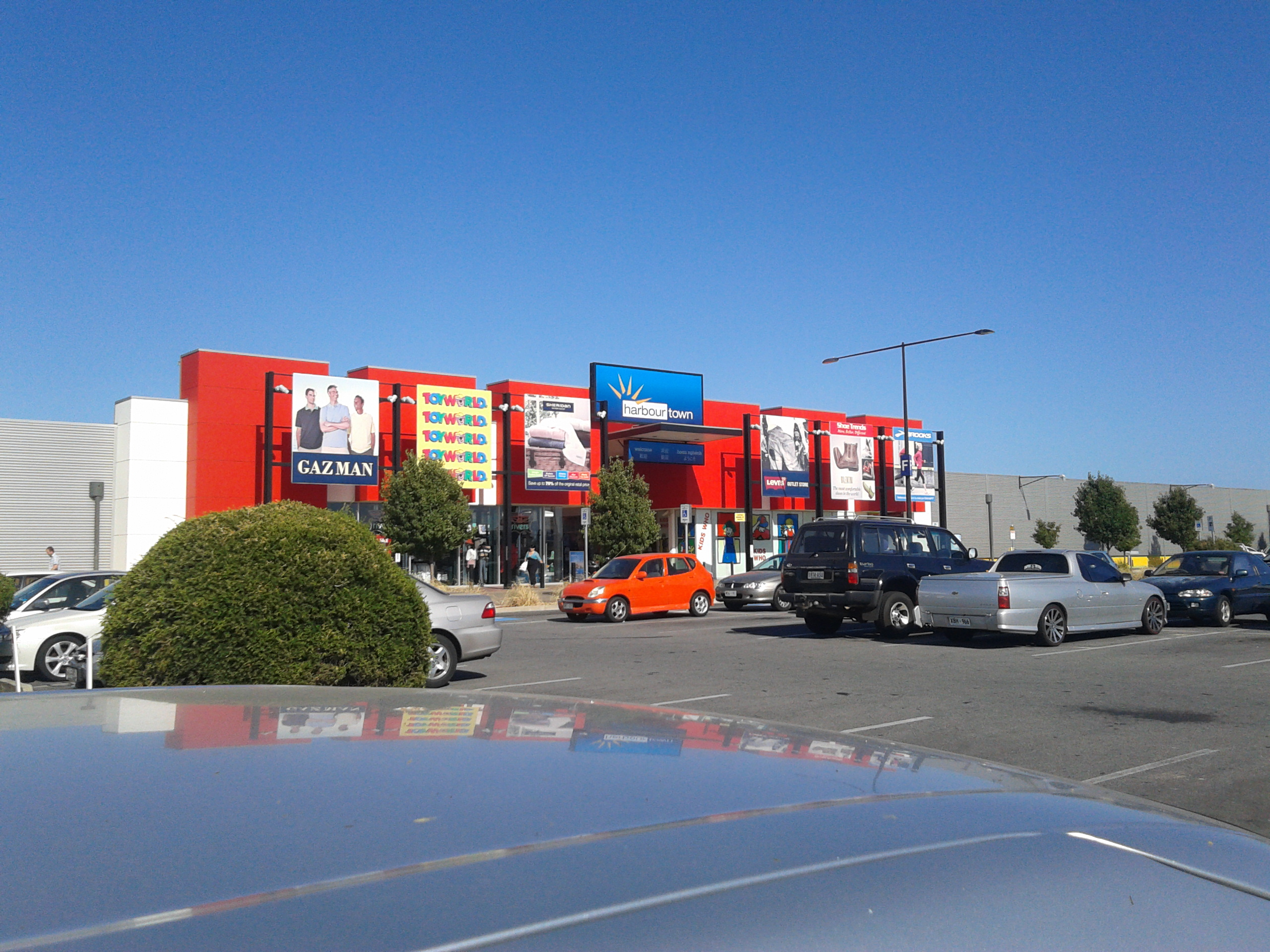 Harbour Town Adelaide exterior view from car park, which is located next to Adelaide Airport.